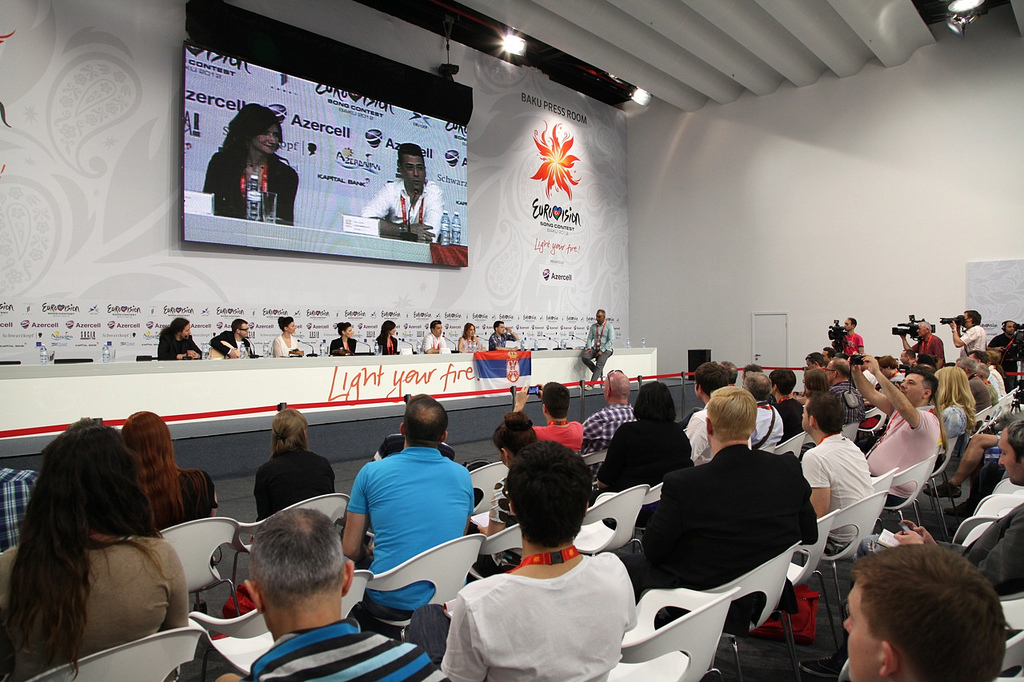 Even though competition is in almost 10 days, Serbian press conference got great coverage